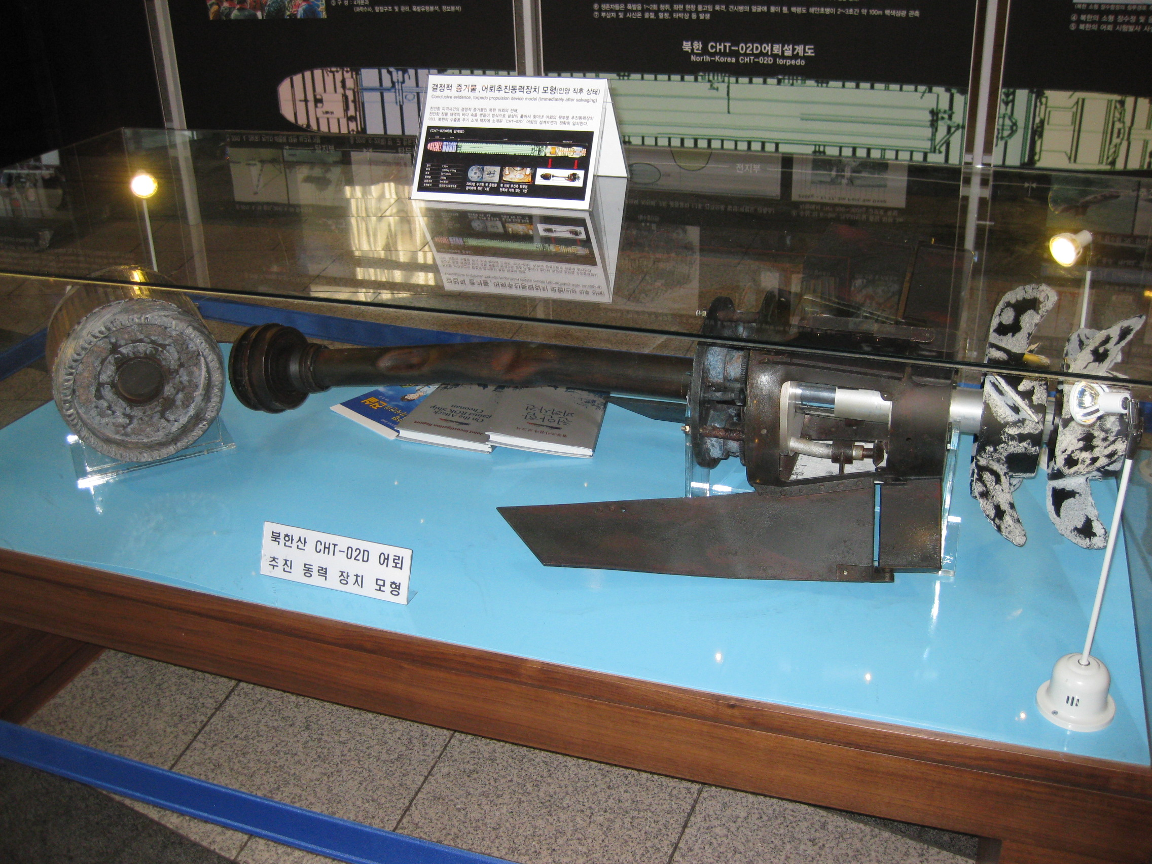 CHT-02D torpedo wreckage on display at the War Memorial of Korea, 23 March 2011, displayed as part of the 1 year anniversary of the sinking of the ROKS Cheonan